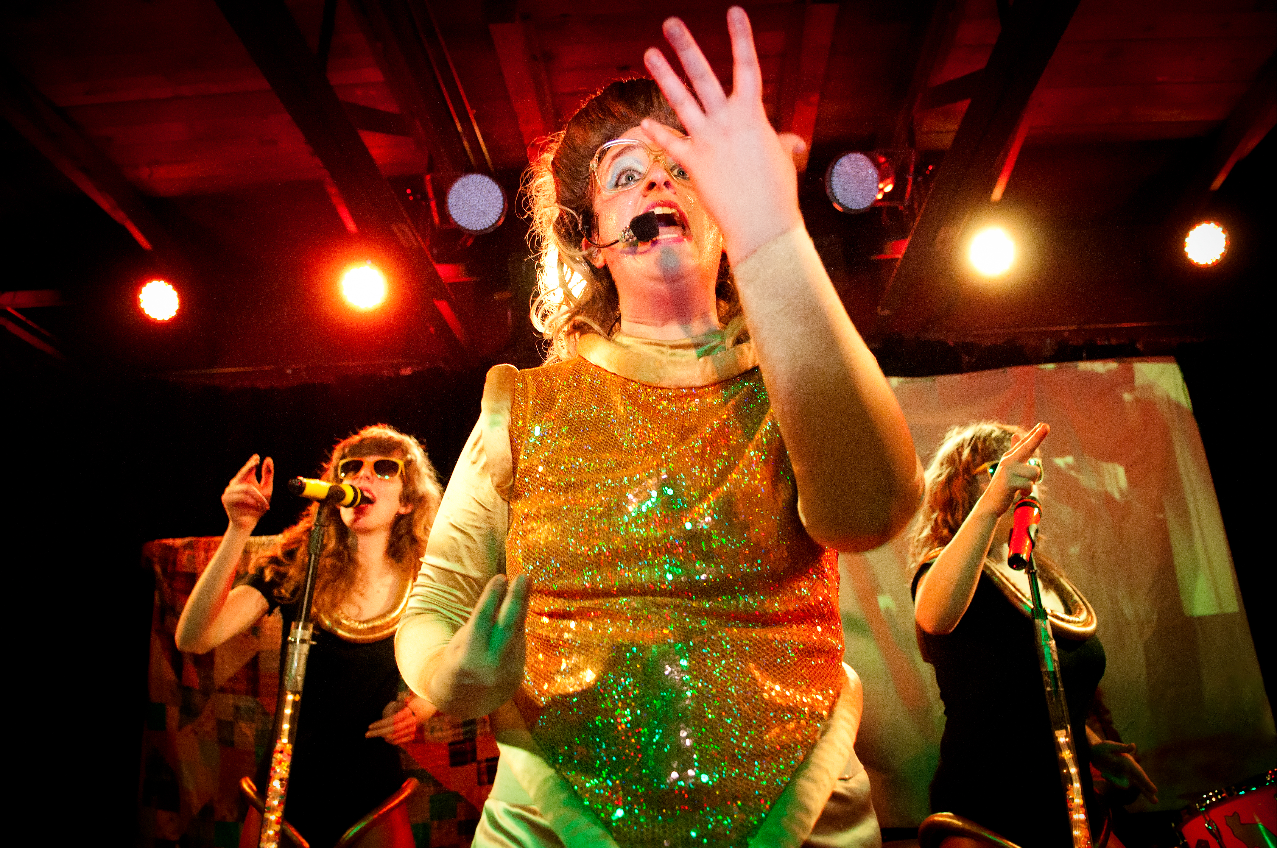 Leslie & The LY's performing in Salt Lake City, Utah on March 14, 2010.